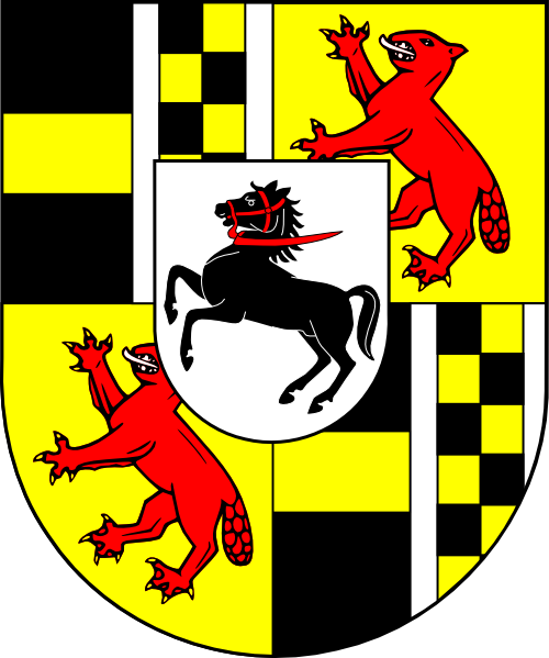 Coat of arms (shield only) of Johann Joseph von Breuner, archbishop of Prague (1695 - 1710).